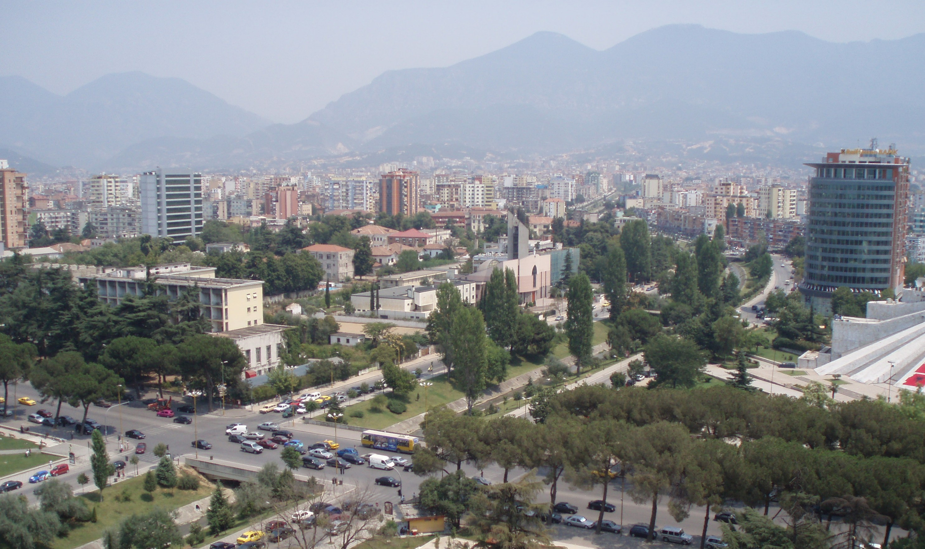 Tirana. View from Sky Tower